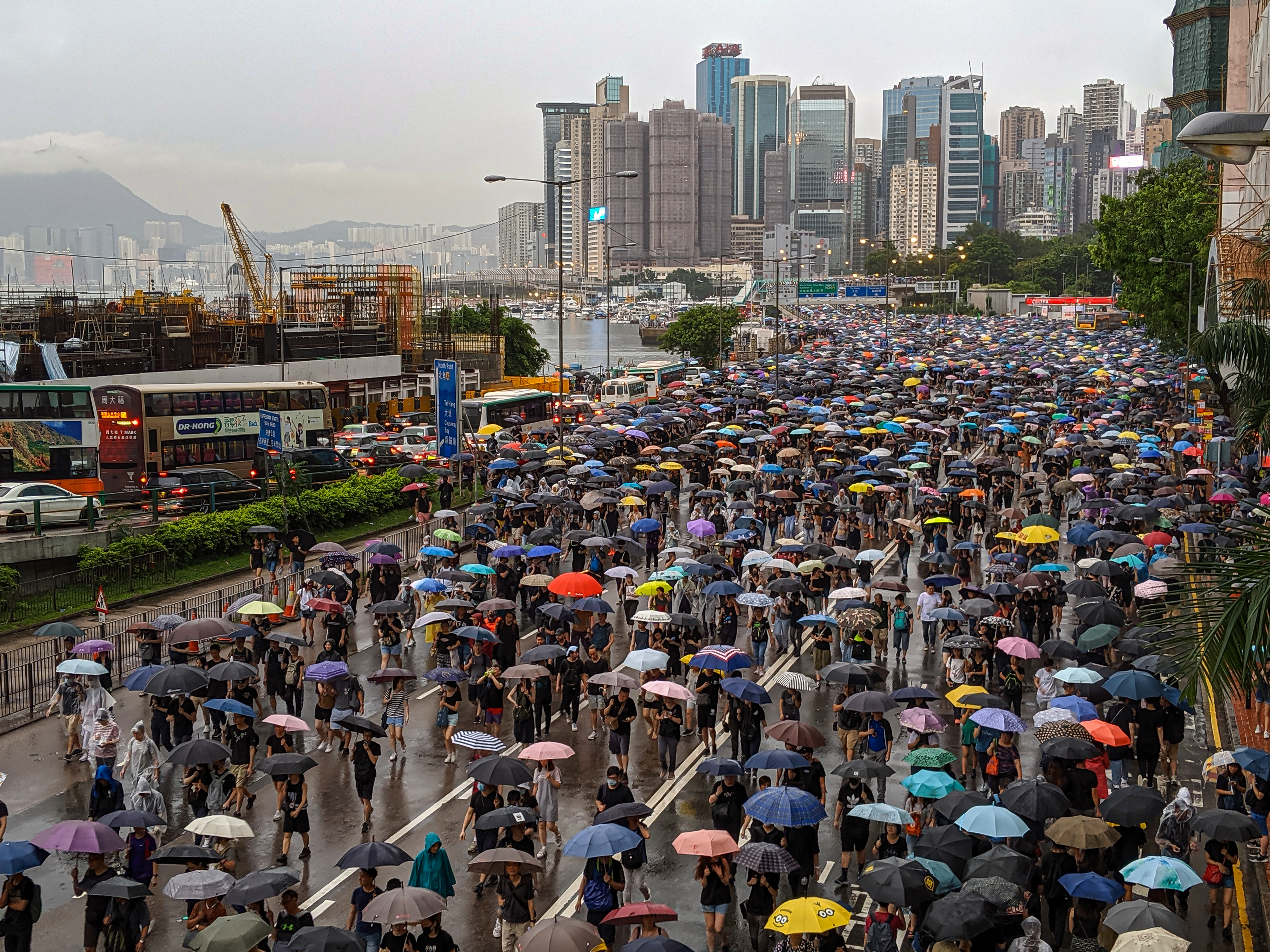 Protesters brave heavy rain as they march against the 2019 Hong Kong extradition bill on Sunday, August 18, 2019.